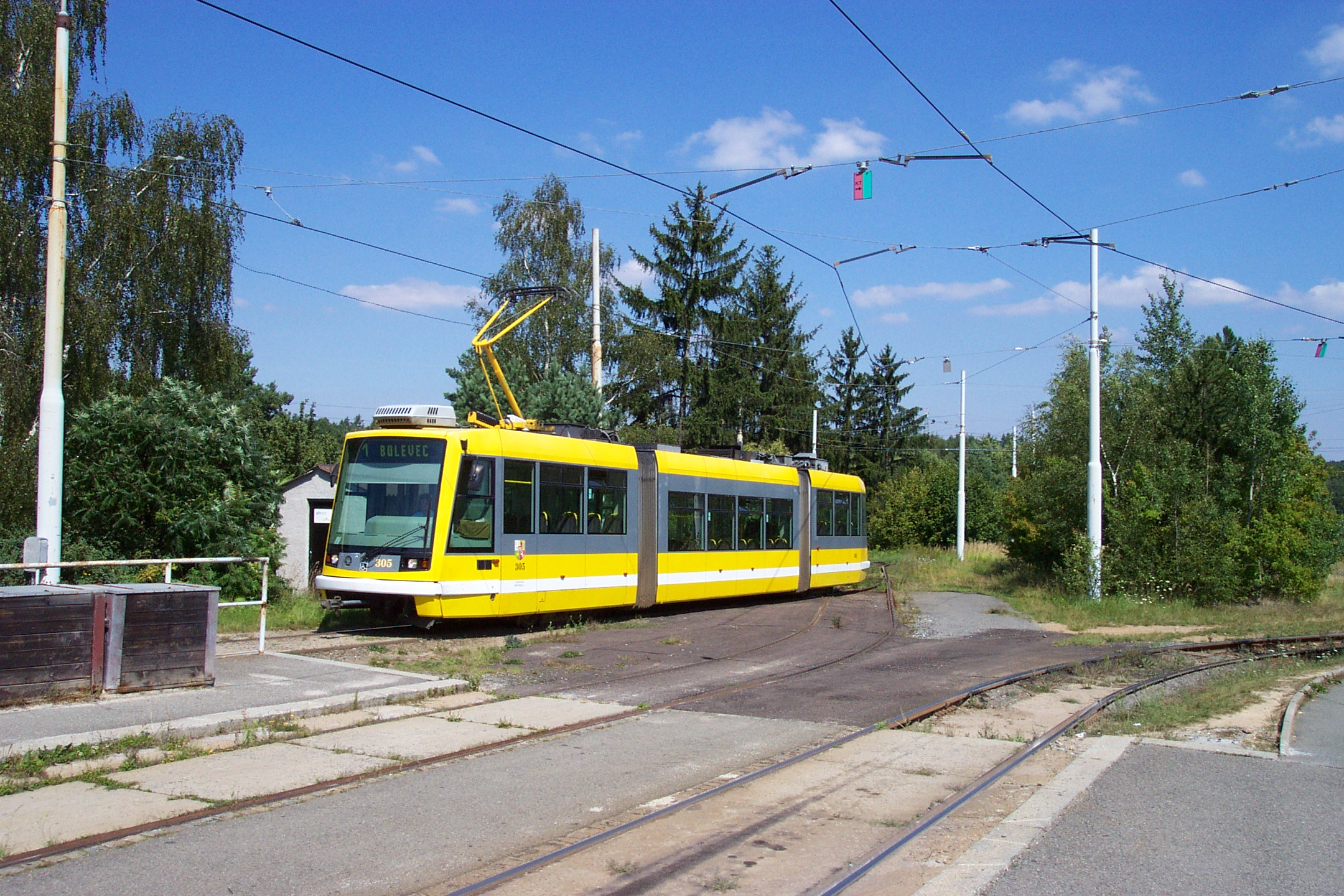 Škoda Astra tram in Plzeň Bolevec